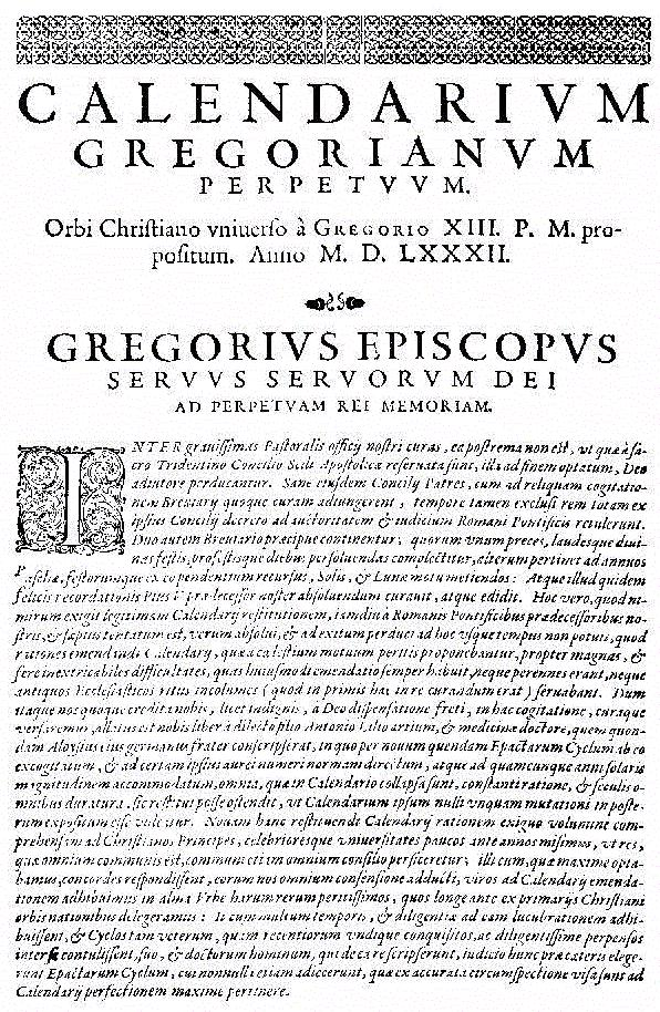 The first page of the papal bull "Inter Gravissimas" by which Pope Gregory XIII introduced his calendar.